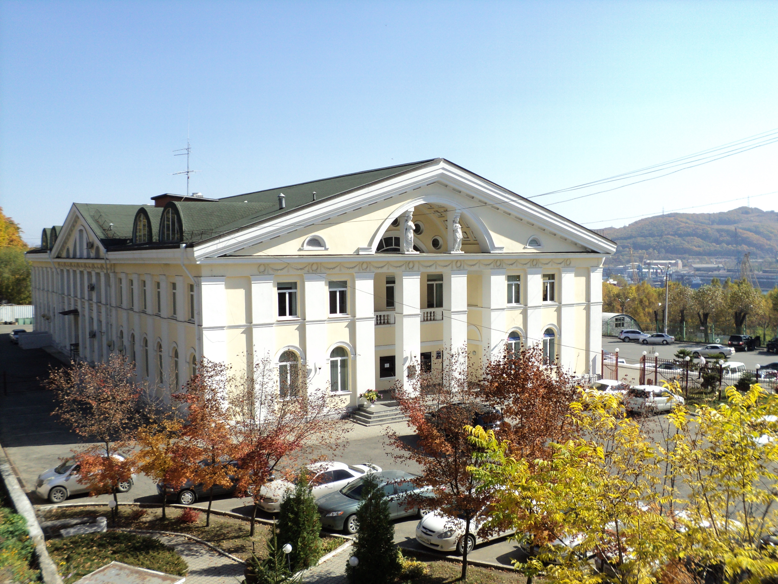 Nakhodka, Russia